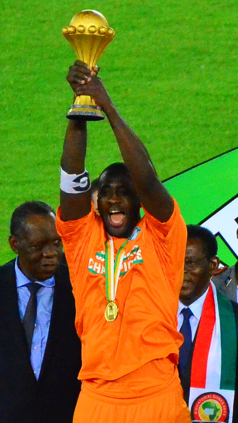 Toure with Ivory Coast in 2015